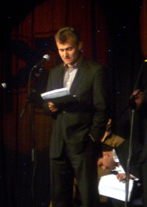 Hugh Dennis performing The Now Show at the 2005 Radio Festival.